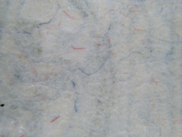 Magnified back of Switzerland's 1881 granite paper, SC#65.